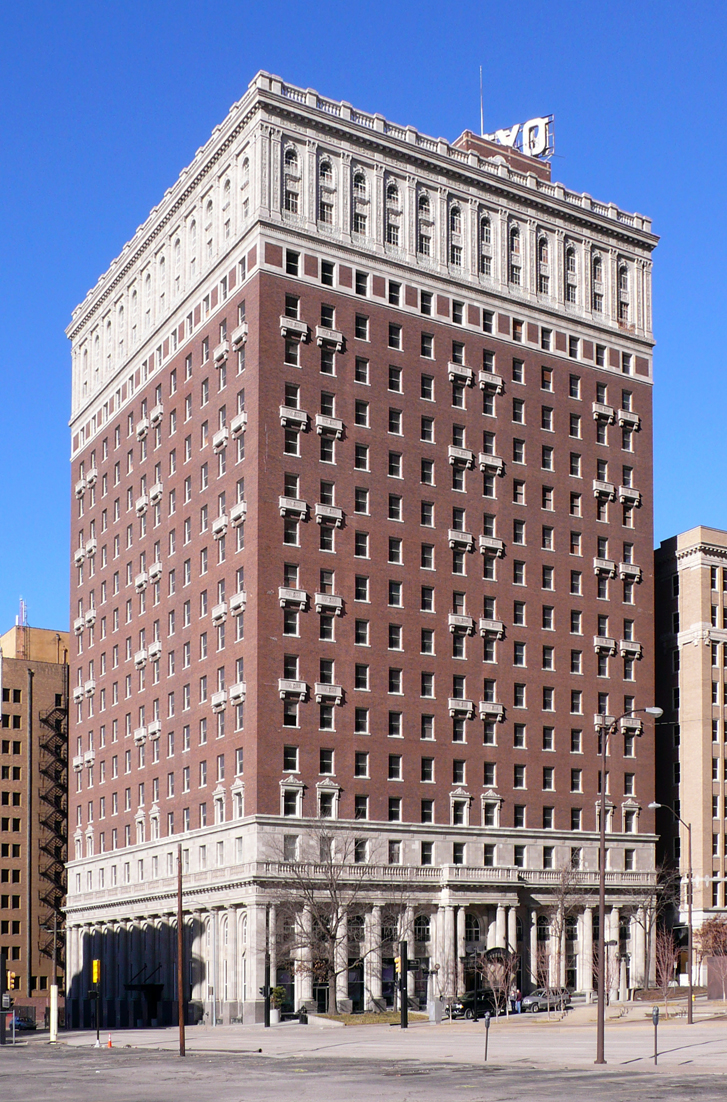 Mayo Hotel in Tulsa, Oklahoma. Photo by camerafiend.